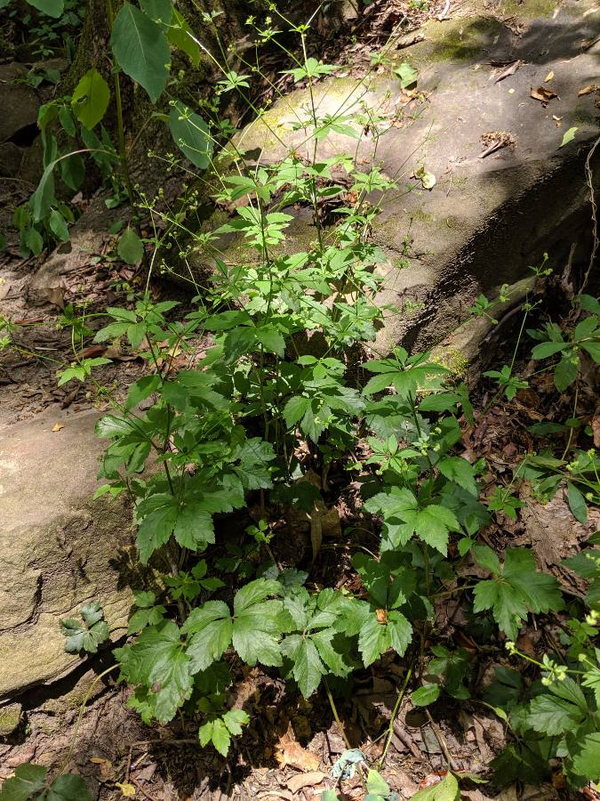 Sanicula canadensis, Canadian blacksnakeroot, plant